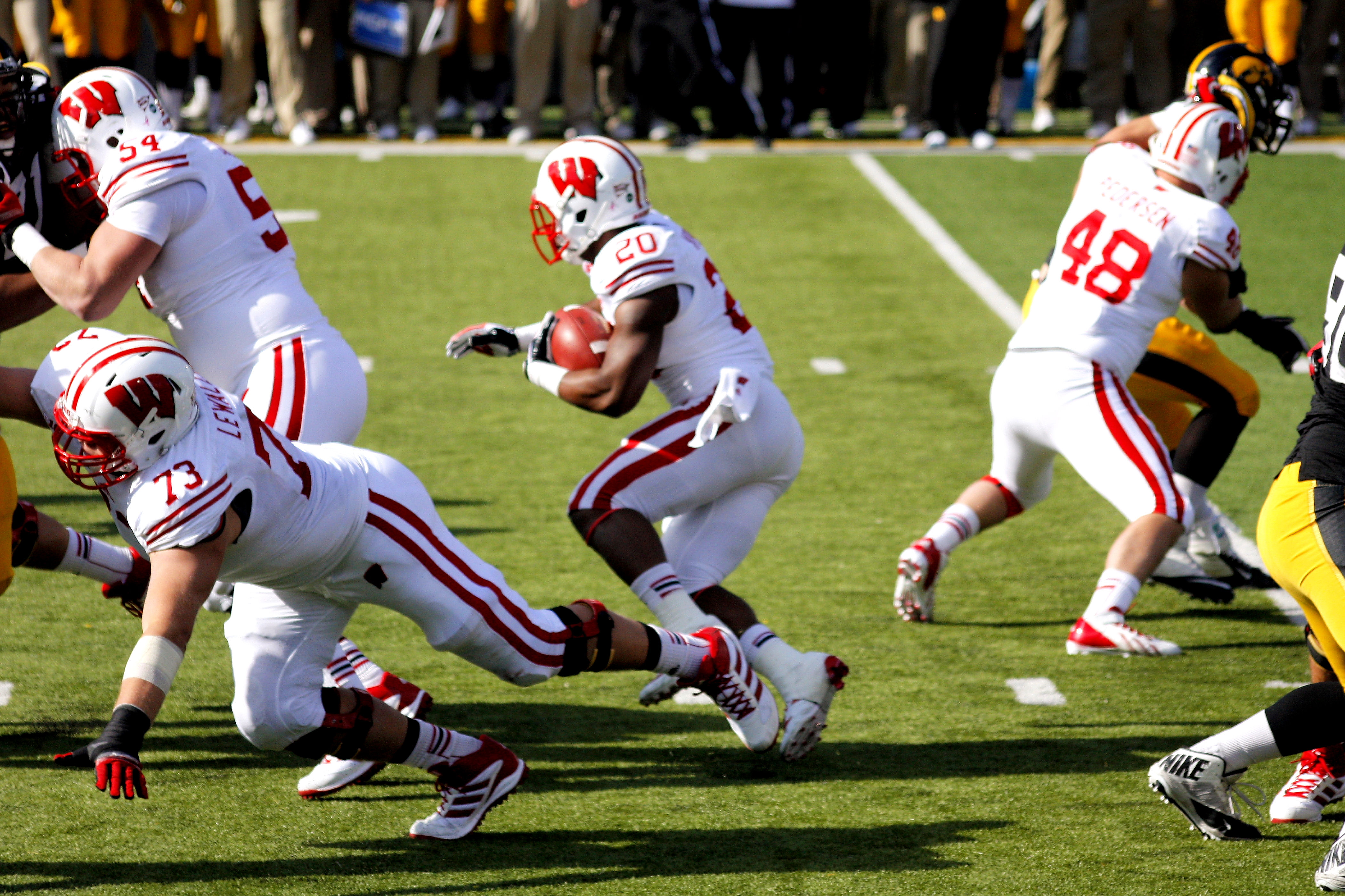 A big hole for Badger running back James Whites. Photos from the November 2 football game between the University of Wisconsin-Madison and the University of Iowa at Kinnick Stadium. The Badgers won 28-9.